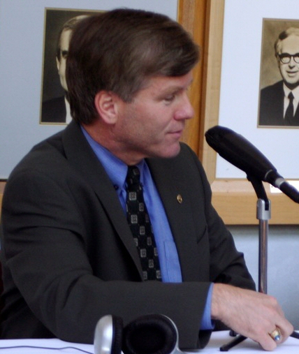 Bob McDonnell, Virginia Attorney General, interviewed by WINA broadcaster Coy Barefoot.